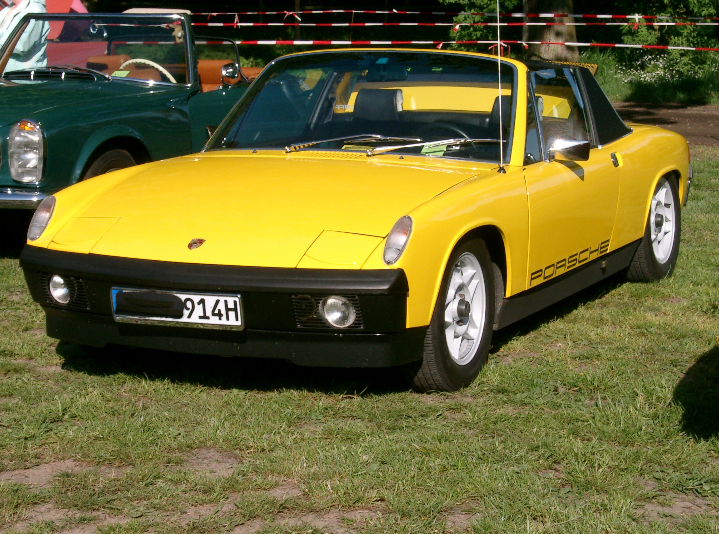 Porsche 914